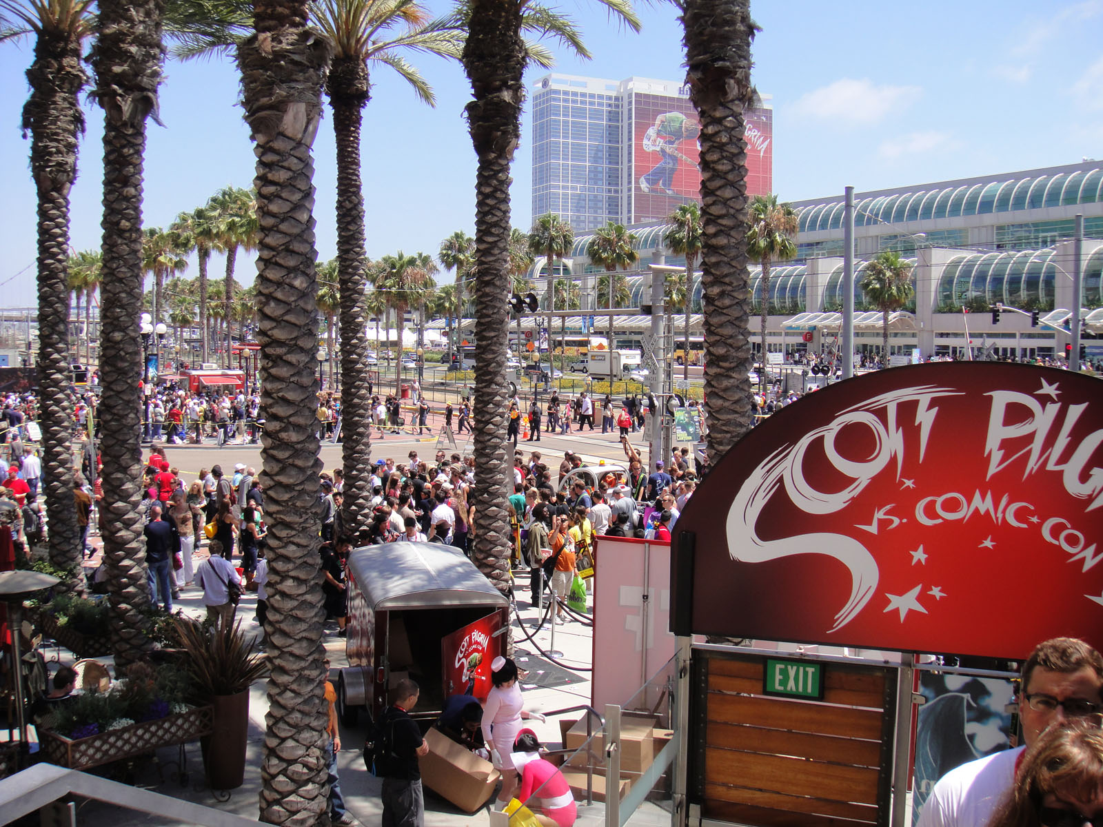 Comic-Con 2010 - crowds fill the Gaslamp District